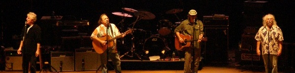 Crosby, Stills, Nash & Young perform at the PNC Arts Center August, 06.